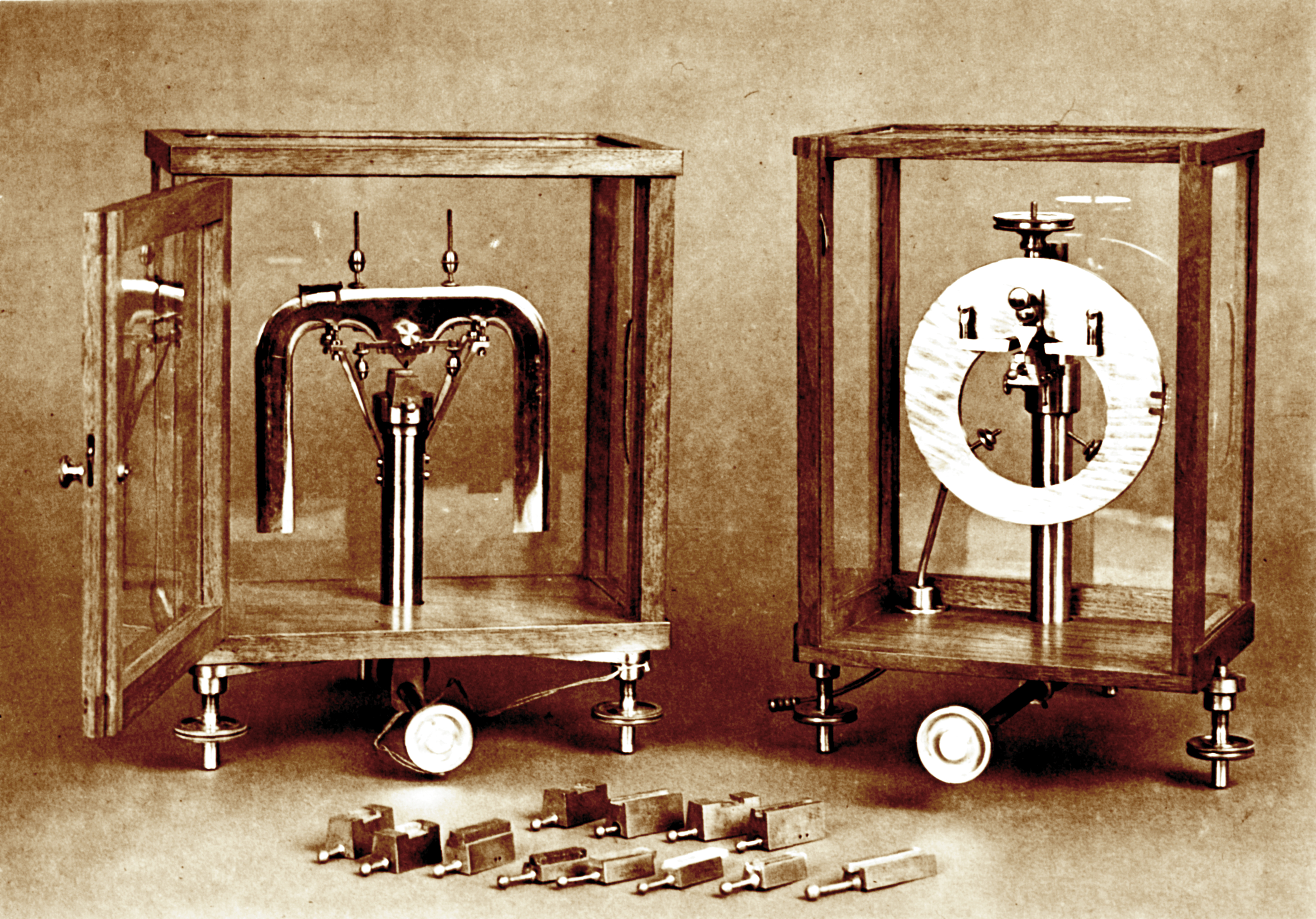 D. I. Mendeleev's design: pendulum-drive and pendulum-horseshoe